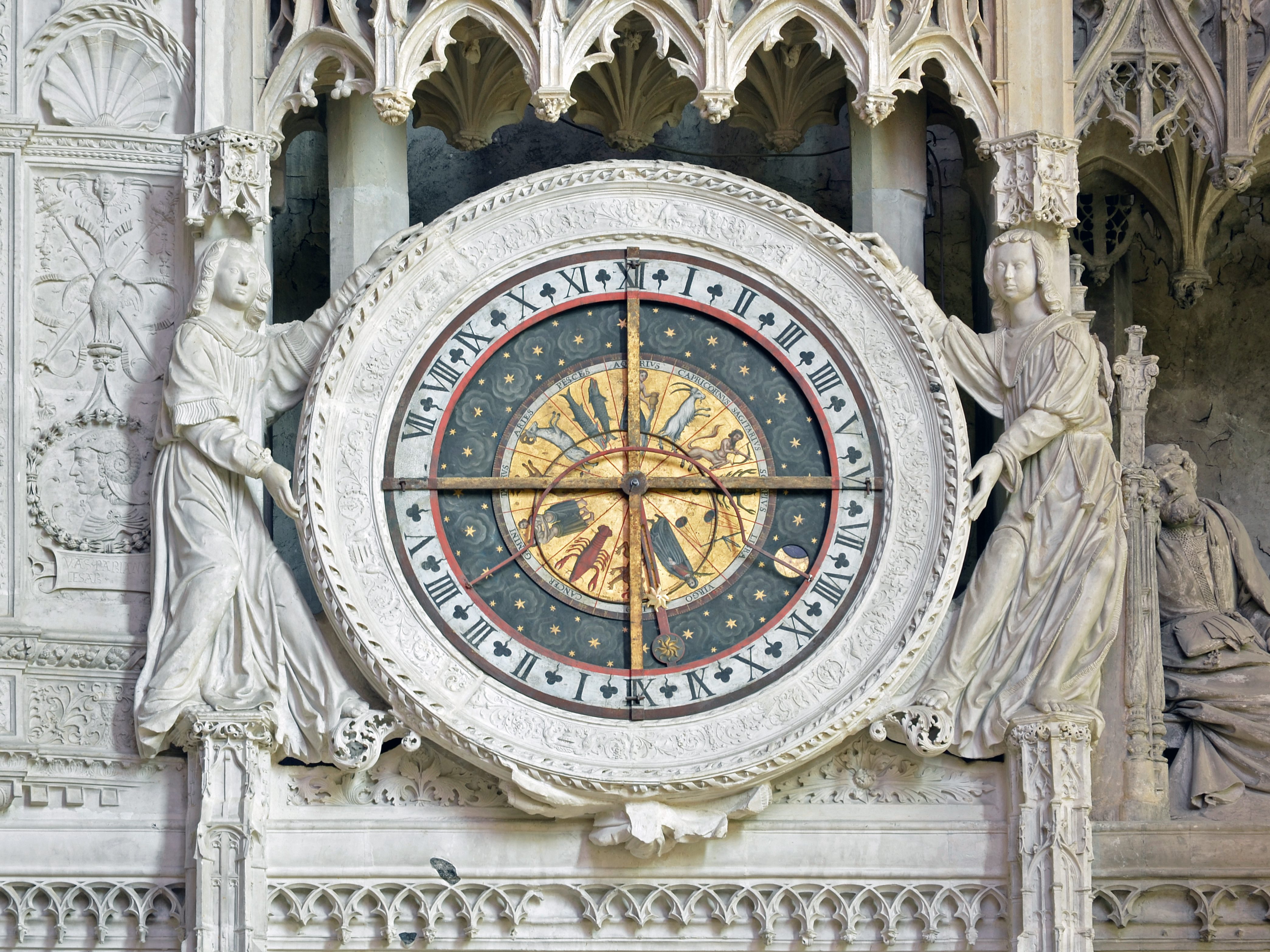 Interior astronomical clock in the ambulatory of Chartres Cathedral (Eure-et-Loir, France).